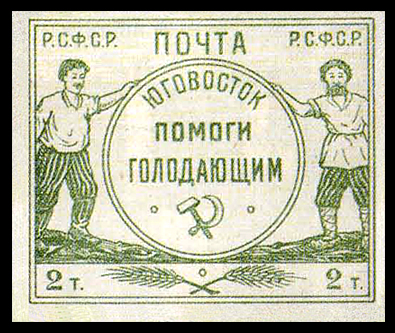 Russia stamp, Pomgol (Yugo-Vostok), 1922, 2000 r.